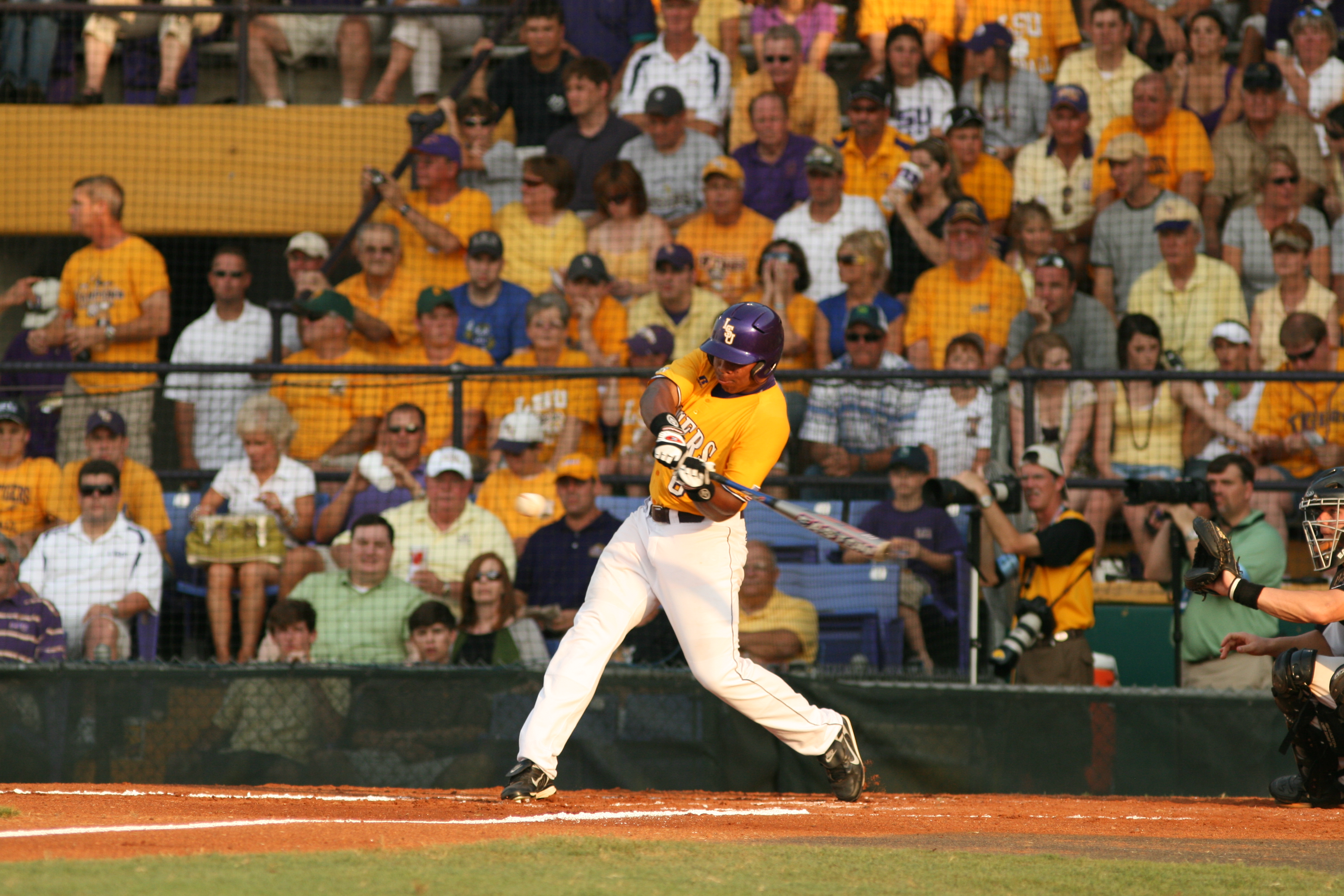 Baton Rouge Regionals '08